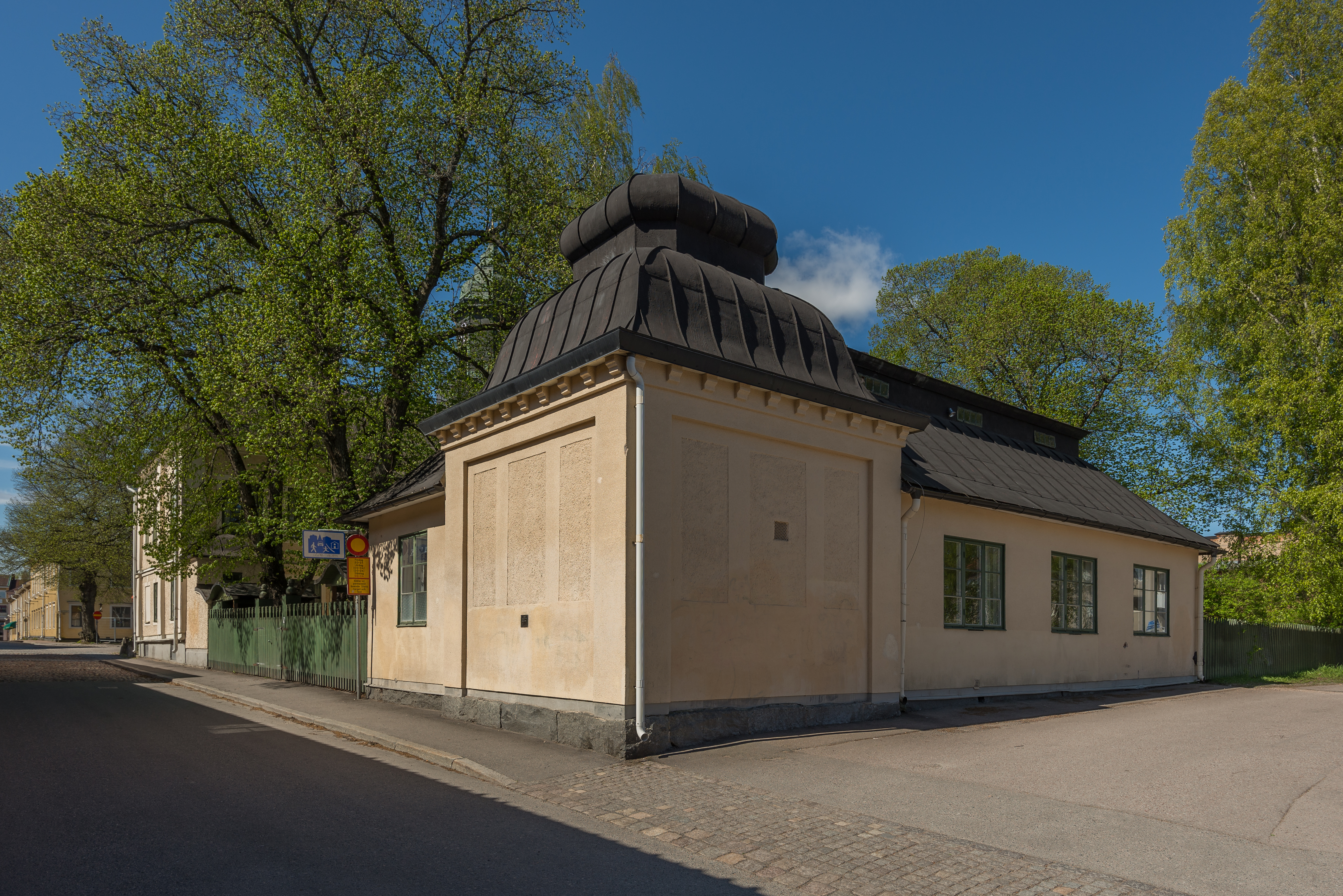 Annex to Hedemora rådhus, the old city hall of Hedemora, Sweden.